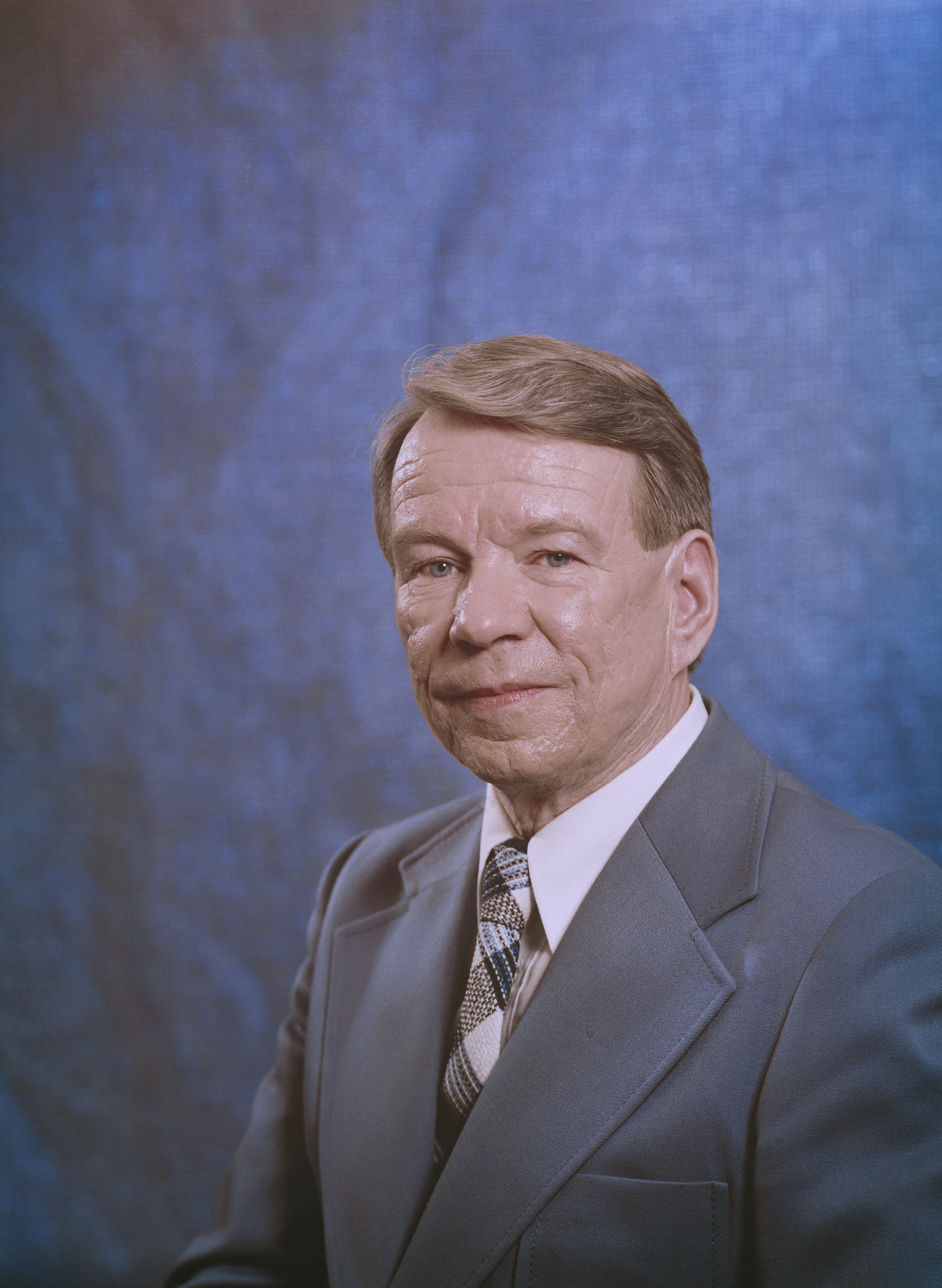 Photograph of the Finnish politician Raino Westerholm (1919–2017).